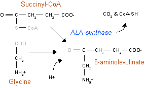 First step of heme synthesis, for porphyrin